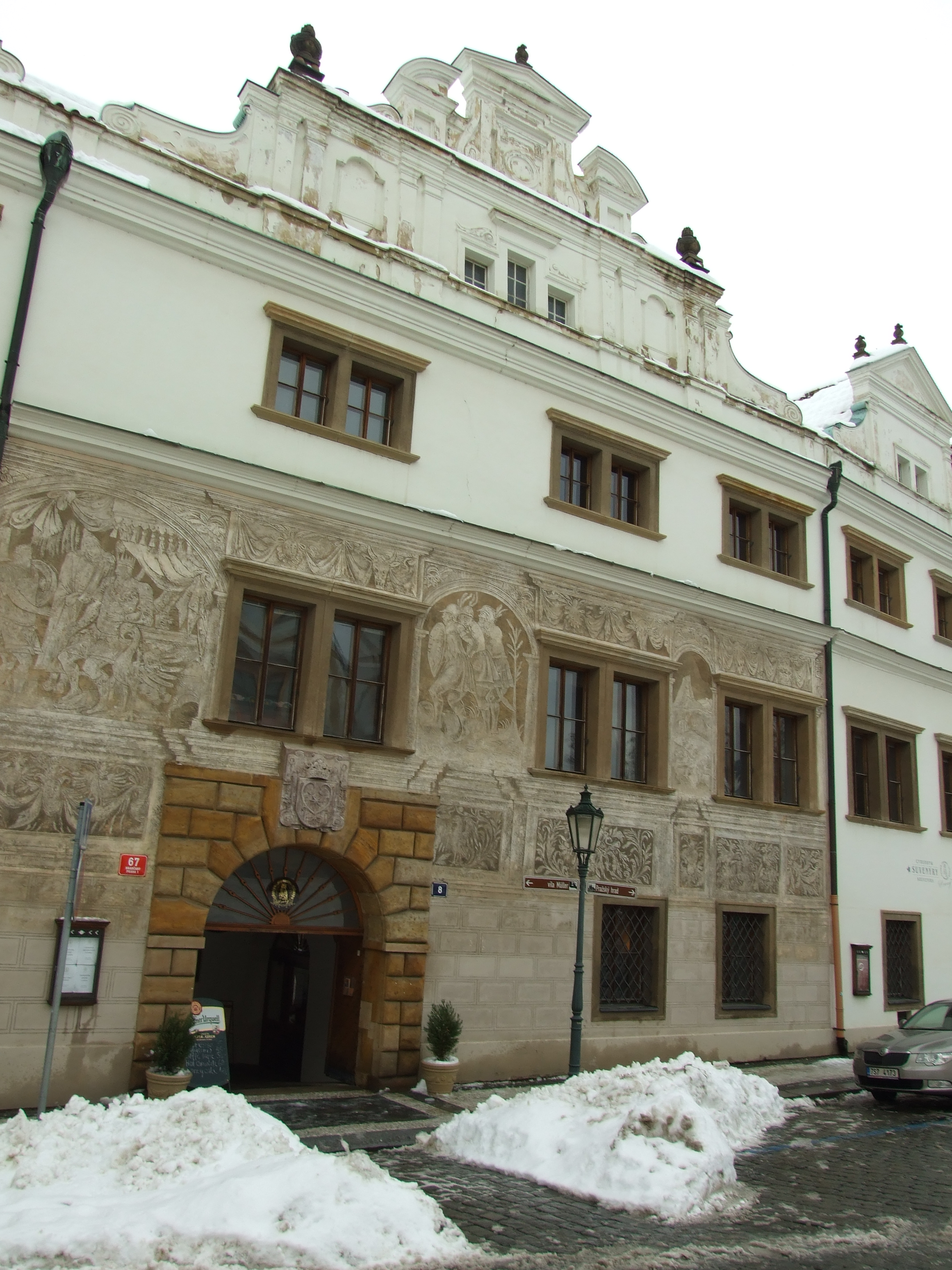 Martinský palác palace in Prague-Hradčany, Hradčanské náměstí. The city was covered by snow in January 2010. Prague, CZhelp